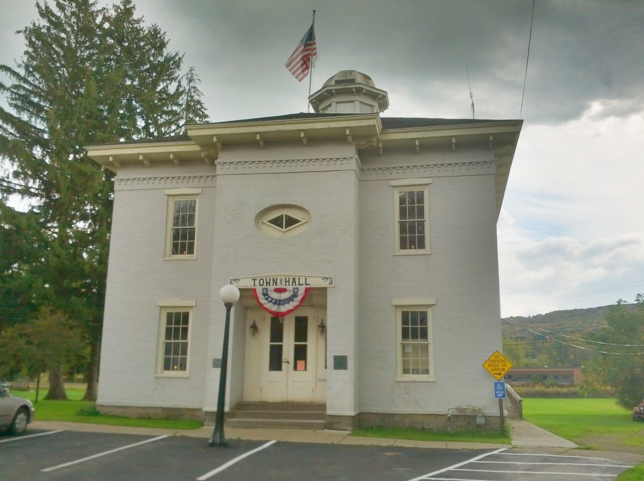 Old Allegany County Courthouse